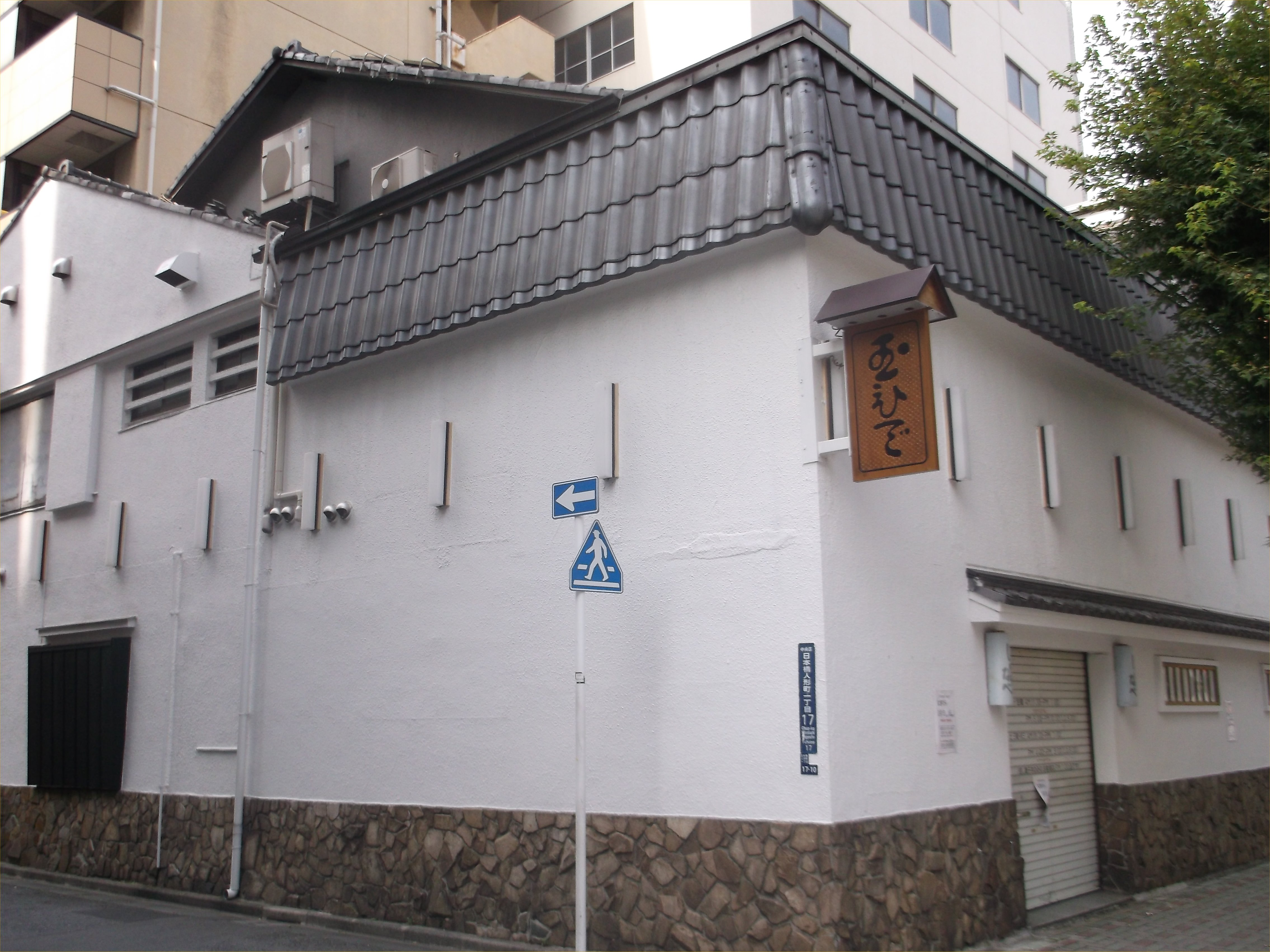 A photo of "Tamahide"(a fifth generation shop that serves chicken and eggs in a savory soy broth.)Nihonbashiningyocho,Chuo-ku,Tokyo,Japan.